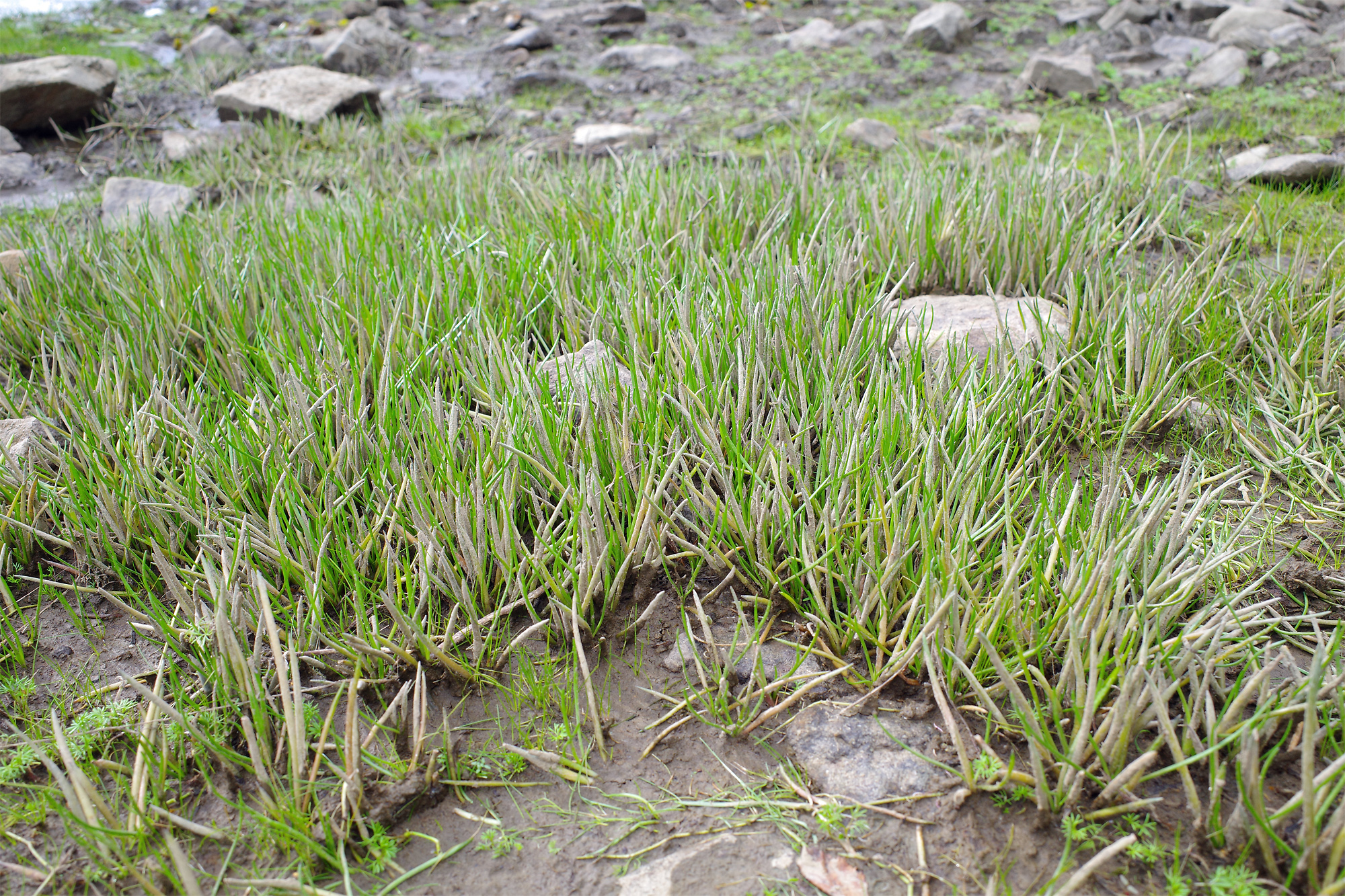 Plants of Littorella uniflora, a rare species of aquatic plant (Plantaginaceae), at the banks of a sandy pool.